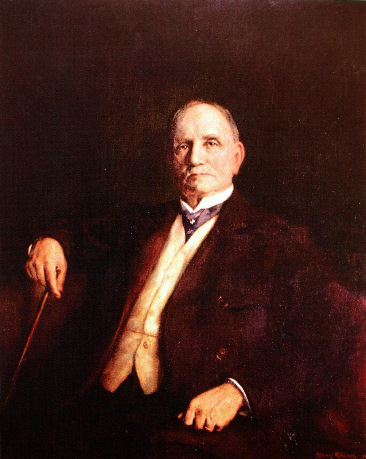 Sir Joseph Robinson (1840-1929)- Oil on canvas